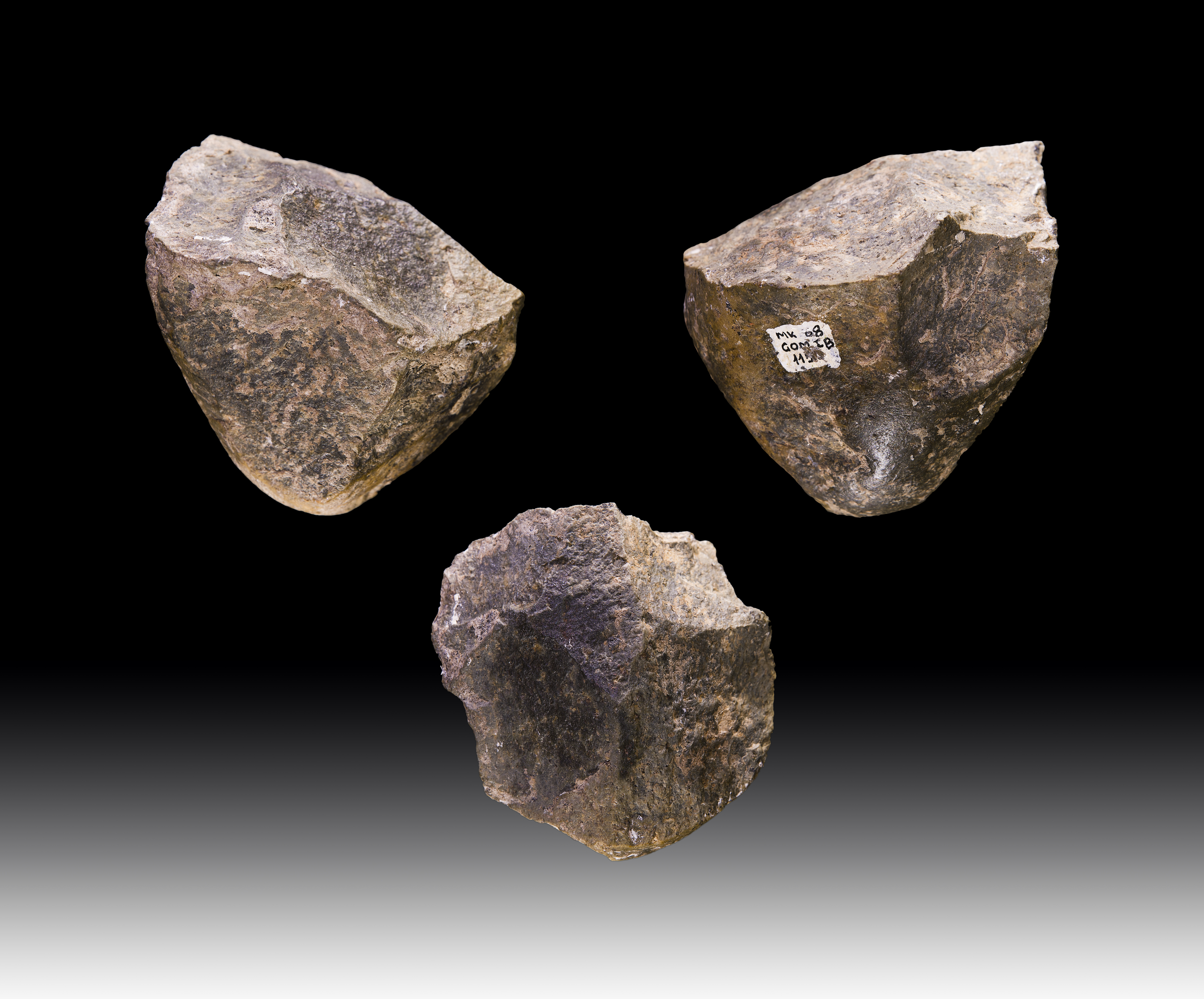 Chopper: one of the earliest examples of stone industry. Original - private collection. Location: Melka Kunture, Ethiopia. Stage: Oldowan to 1.7 million years before our era. Size: 77x70x65 mm